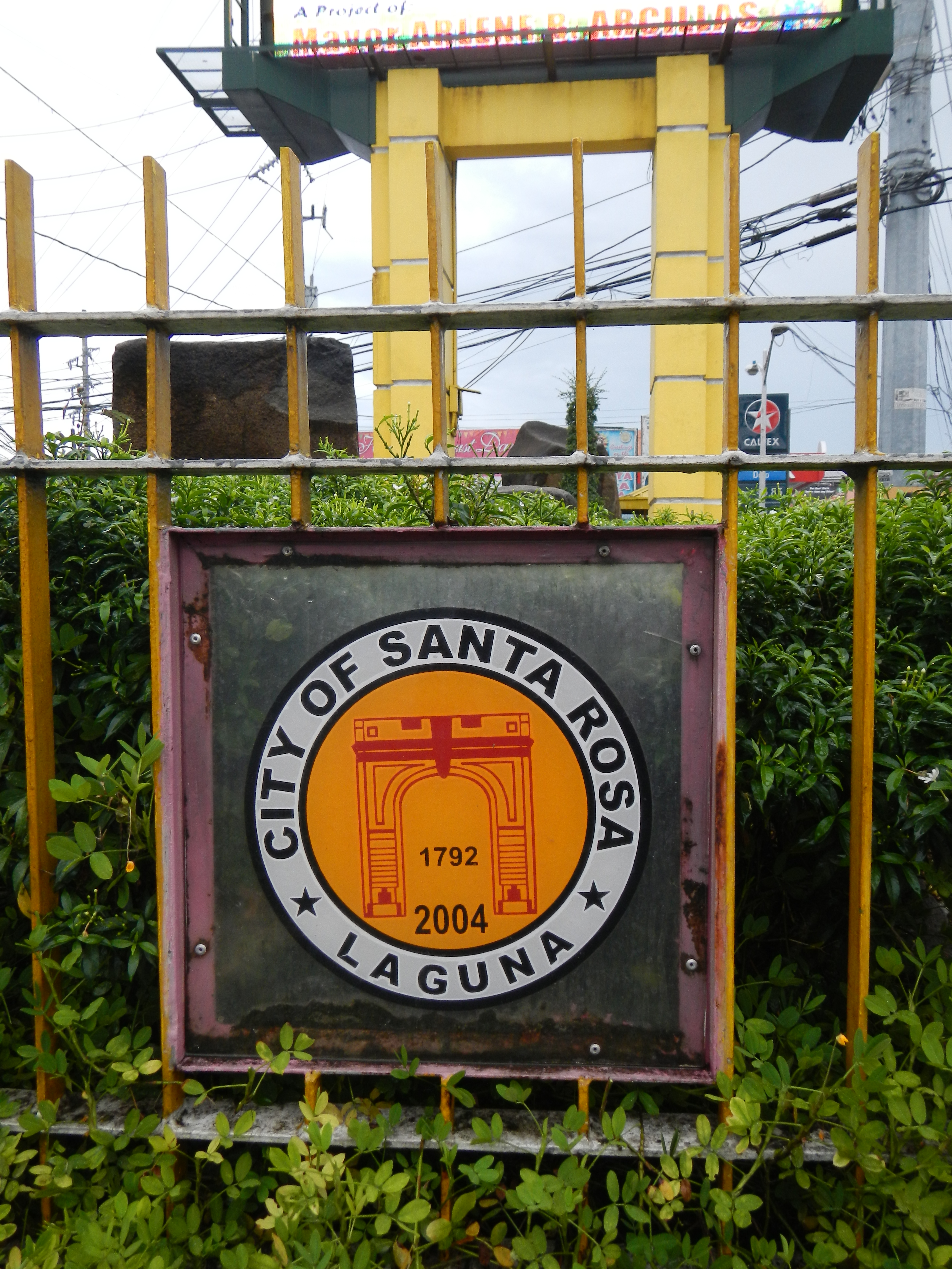 UploadWizard photos --- (general description) of (landmarks, heritage, culture, comprehensive, photography) of – Biñan, Laguna [1] - a) San Isidro Labrador Parish Church of Biñan in Barangay Poblacion, Biñan [2] (Coordinates:14°20'17"N 121°5'2"E - belongs to the Roman Catholic Diocese of San Pablo [3] -- Episcopal District I [4] 4024 Laguna, Philippines Feast day: May 15 Parish Priest: Father Luis A. Tolentino, VFParochial Vicar: Father Lauro A. Ramos III icar Forane: Father Luis A. Tolentino Vicariate of San Isidro Labrador Episcopal Vicar: Msgr. Jose D. Barrion, PC Vicariate of Vicar Forane: Father Mario P. Rivera), --- b) of the heritage bells of Santa Rosa, Laguna [5] (City of Santa Rosa, a city in the province of Laguna, Philippines) Church and the scenic, skyling view of the City proper and its landmarks from the uppermost stairs of the Church heritage bell tower -- of Santa Rosa de Lima Parish Church of Santa Rosa Kanluran (Poblacion) - belongs to the Roman Catholic Diocese of San Pablo[6]) and c) the Welcome Archs and Signs, Monuments - of Santa Rosa, Laguna [7] & Biñan, Laguna [8] - in the junction, crossing Pan-Philippine or Maharlika Highway.